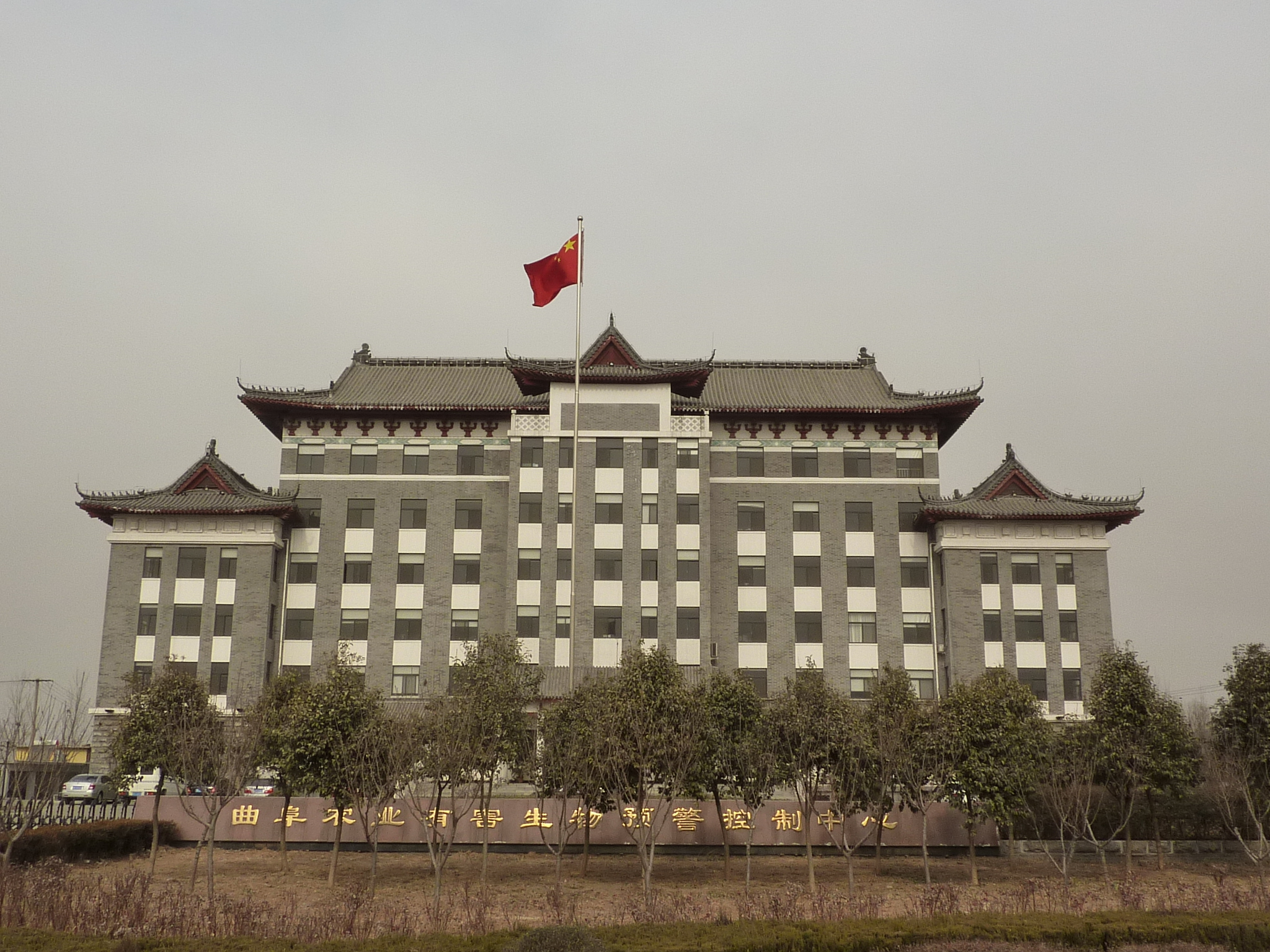 Qufu Agricultural Pest Monitoring and Control Center, housed in an impressive building in Jingxuan East Rd, some 2 km east of Qufu's Walled City (and just east of the State of Lu Wall)